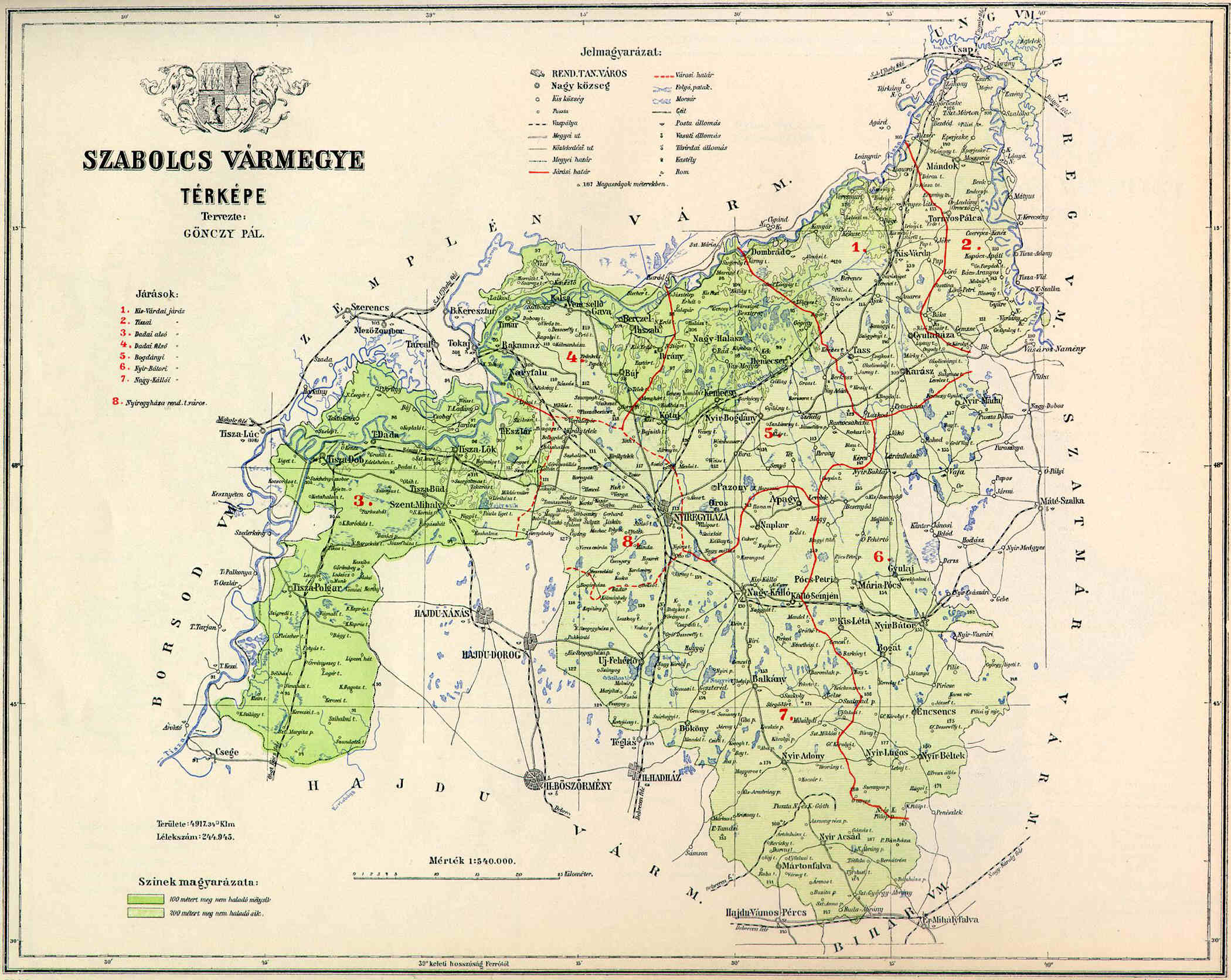 County of Szabolcs in the pre-Trianon Kingdom of Hungary. Komitat Szabolcs w Królestwie Węgier przed traktatem w Trianon.